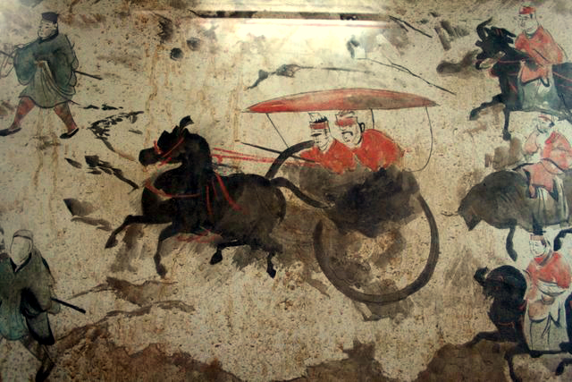 A section of a Chinese Eastern Han Dynasty (25–220 AD) fresco of 9 chariots, 50 horses, and over 70 men, from a tomb in Luoyang, China, which was once the capital of the Eastern Han.